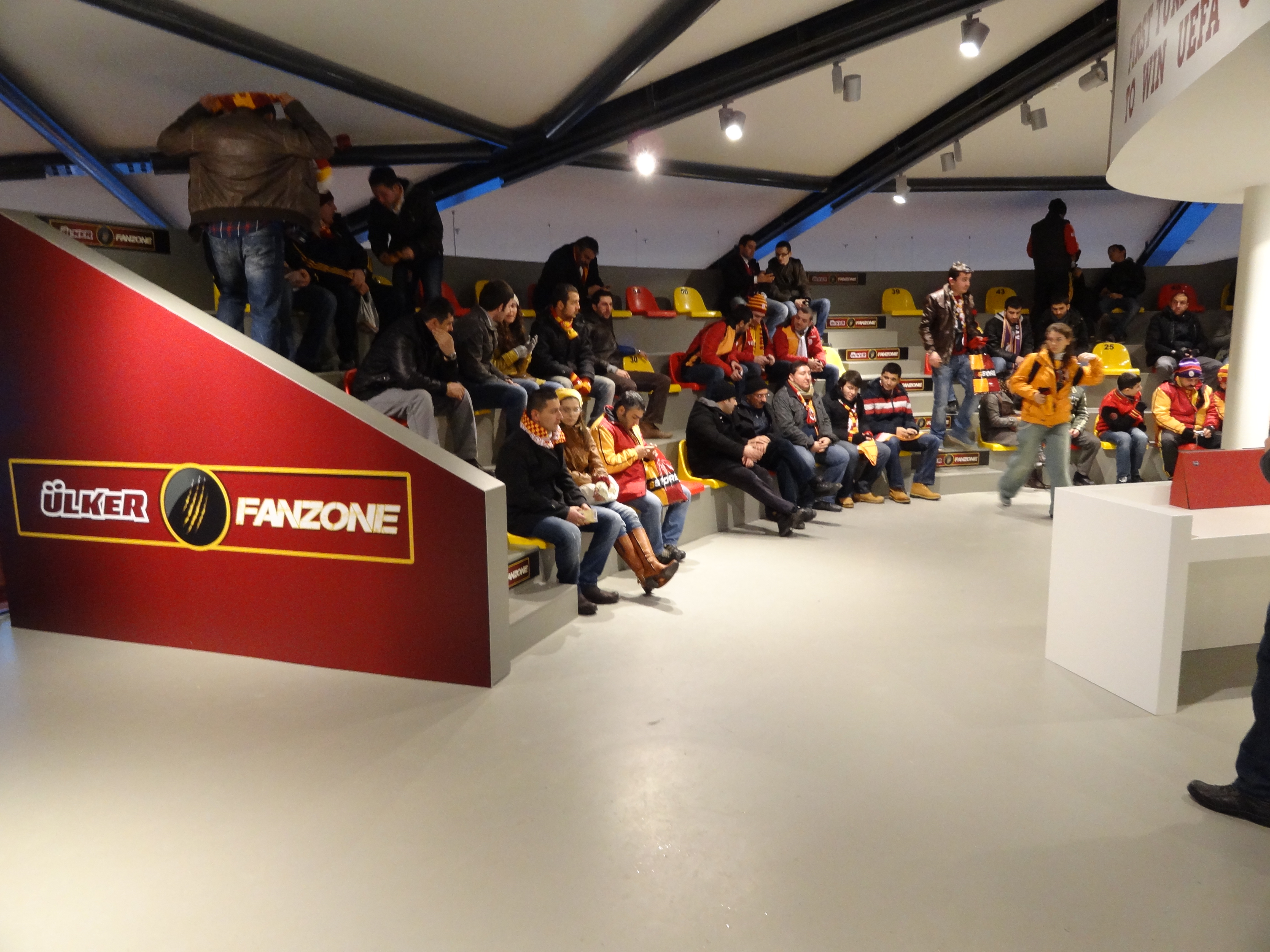 Türktelekom Arena GS Store'un üst katında bulunan Ülker Fanzone. Kayserispor maçı öncesi